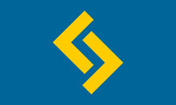 Jeran rune on flag of the Förbundet nationell ungdom (Leage National Youth), founded in 2011.